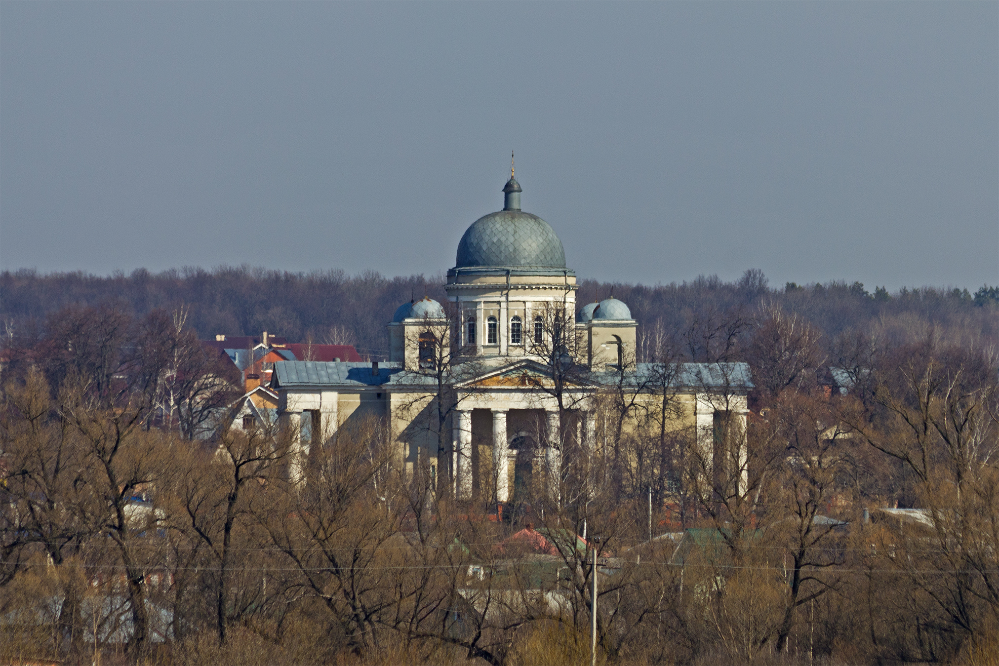 Saint Nicholas Church in Serebryanye Prudy, Moscow Oblast, Russia.